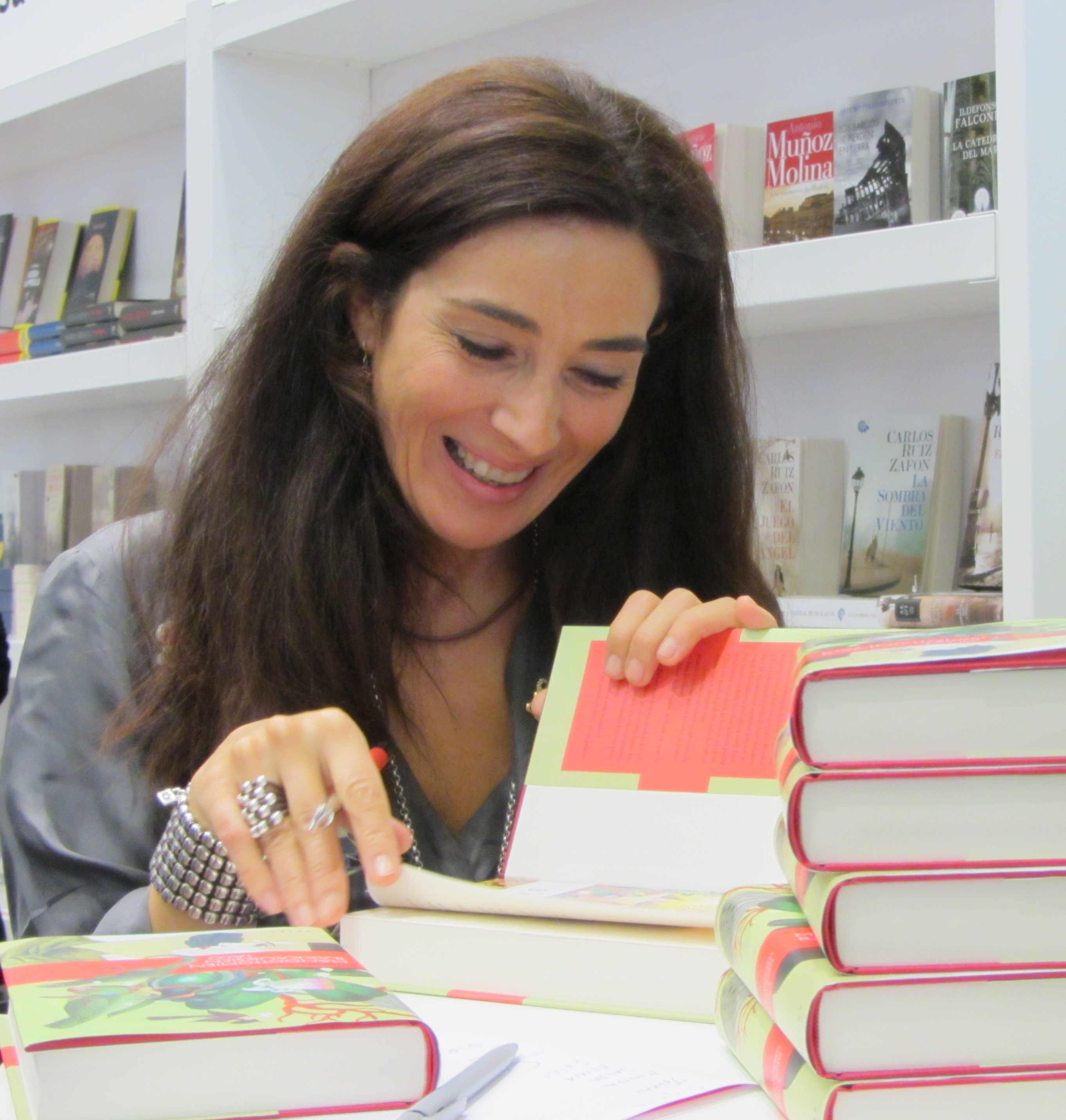 Spanish writer Cristina López Barrio is signing her books at the Turku Book Fair 2012